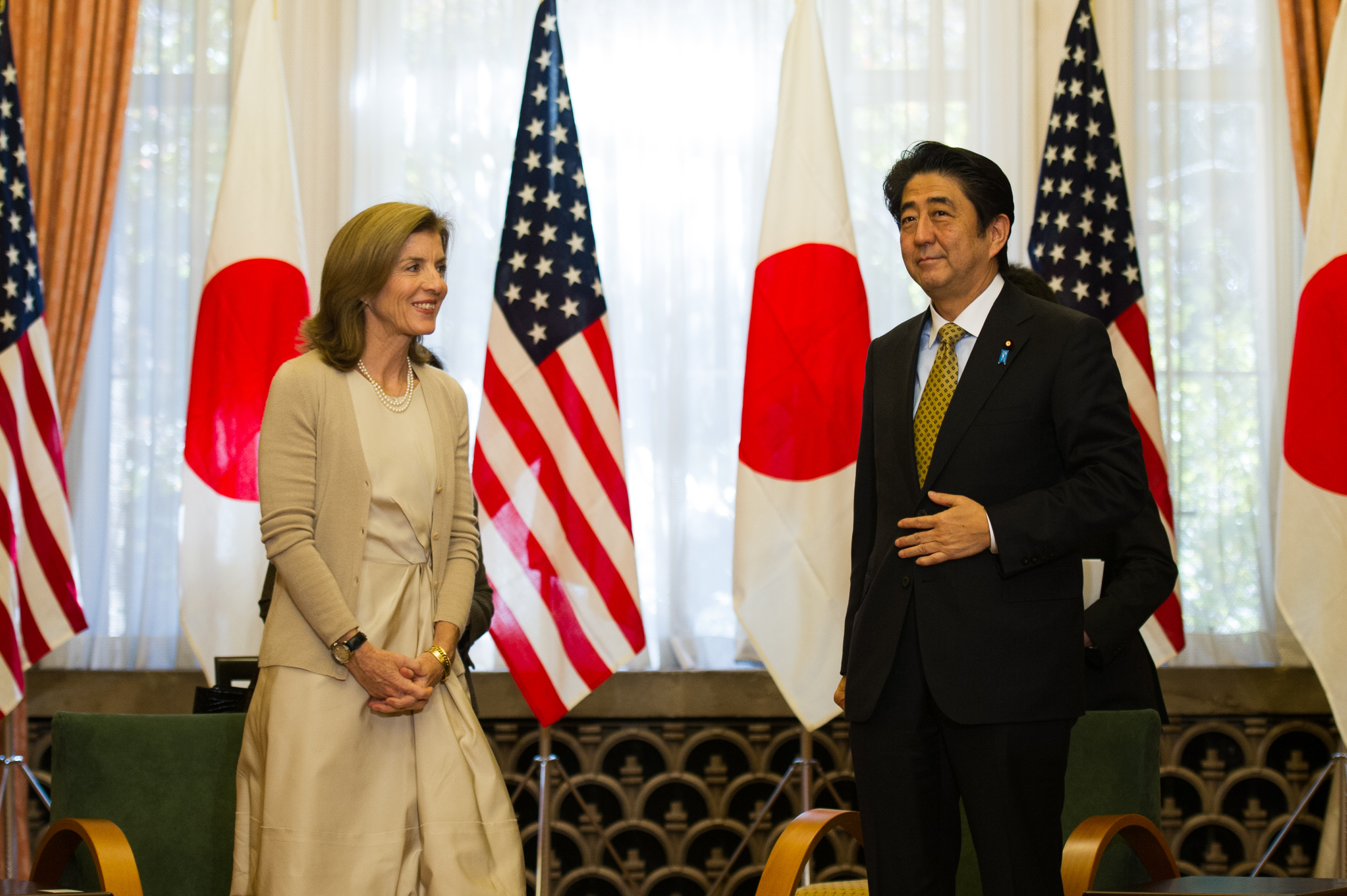 TOKYO, Japan (November 20, 2013) U.S. Ambassador to Japan Caroline Kennedy pays a courtesy call on Japanese Prime Minister Shinzo Abe. [State Department photo by William Ng/Public Domain]